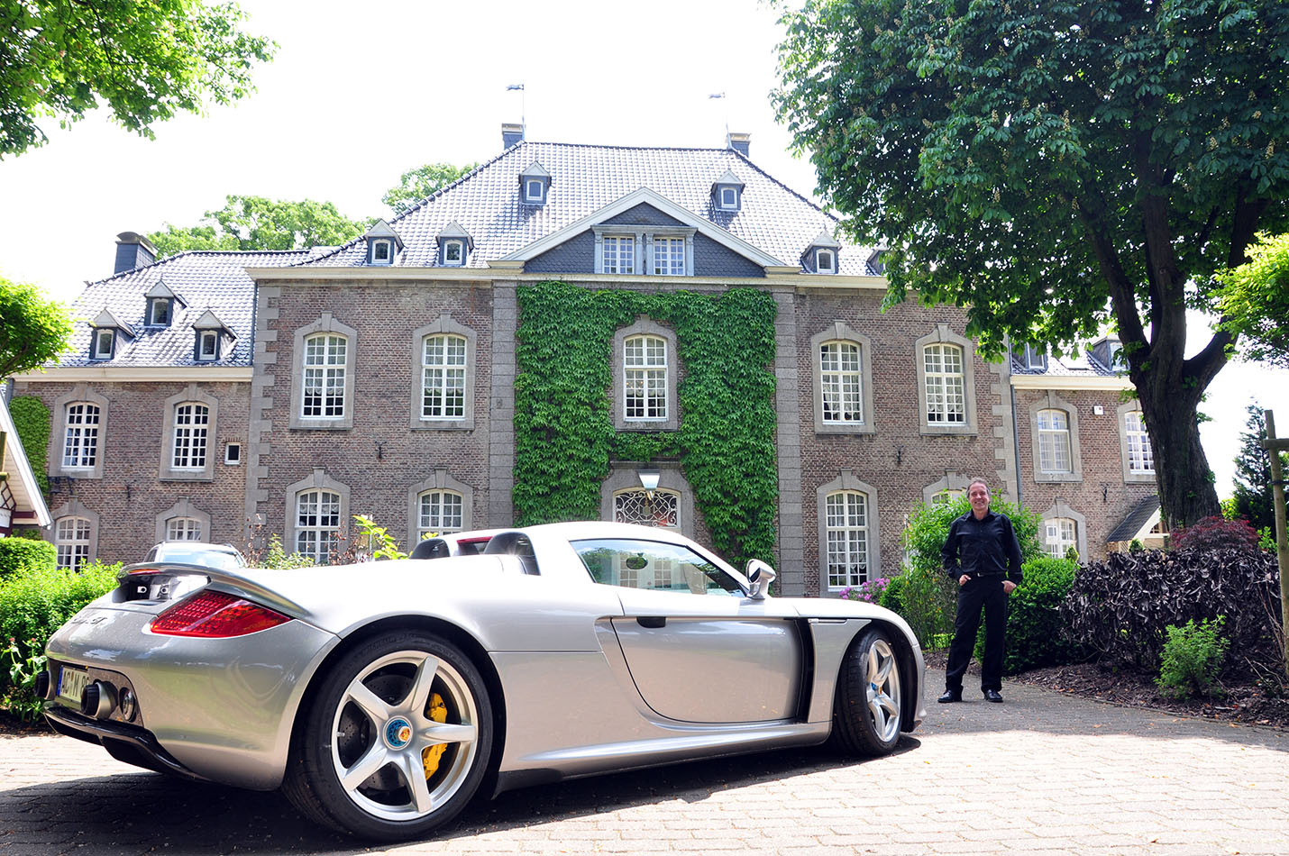 Chateau Thal, Belgium. Residence of Artist Rainer Maria Latzke